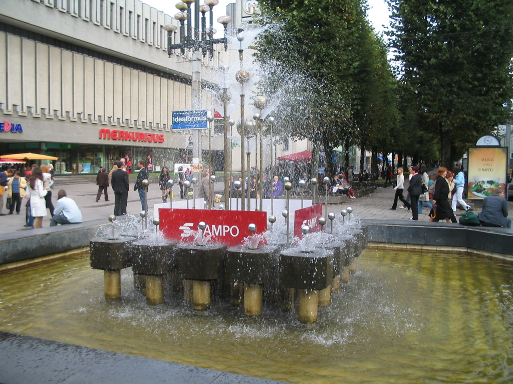 Symbol of Liberty Avenue - Fountain, Kaunas (Lithuania).